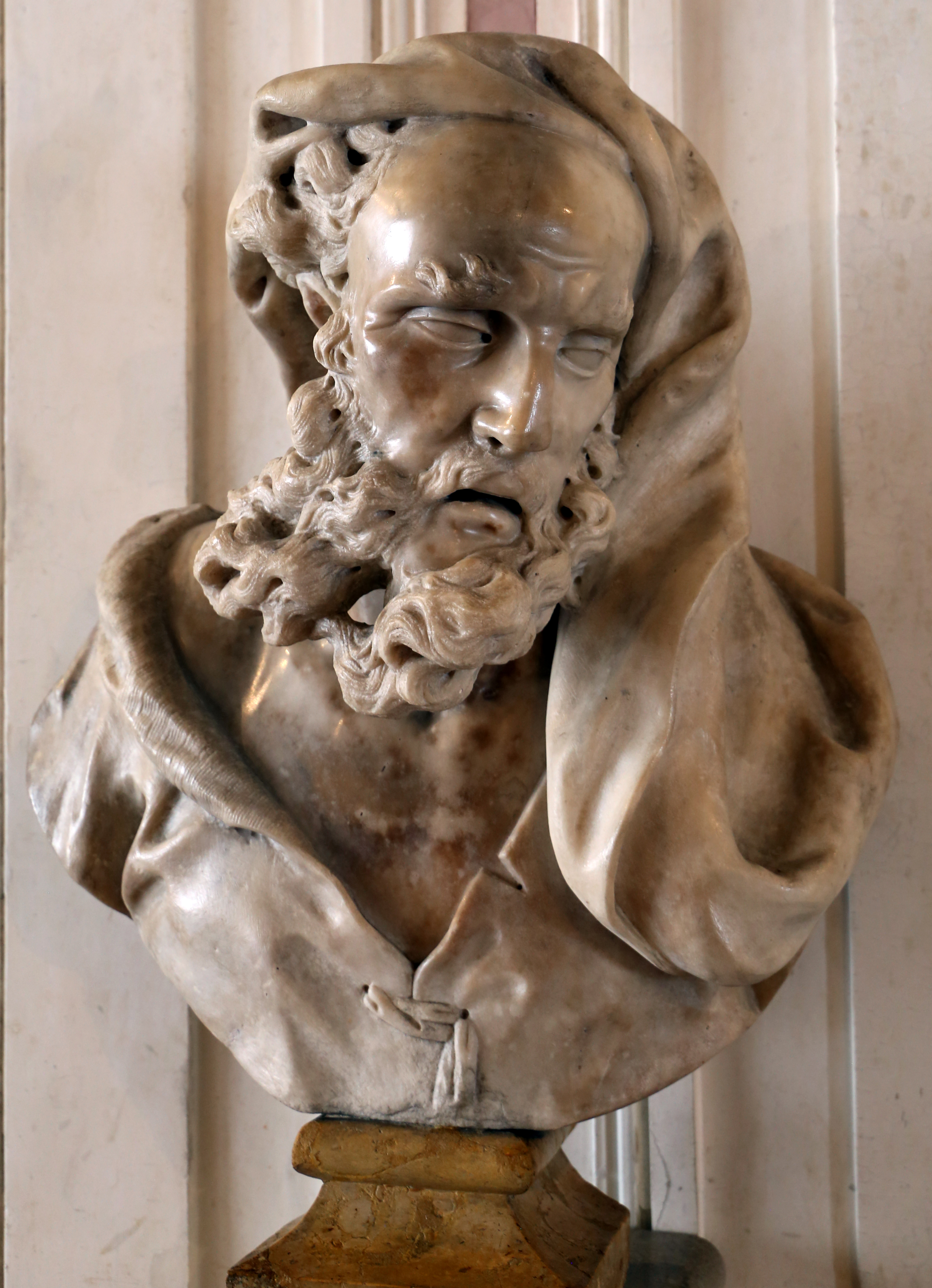 Pinacoteca Querini Stampalia (Venice)